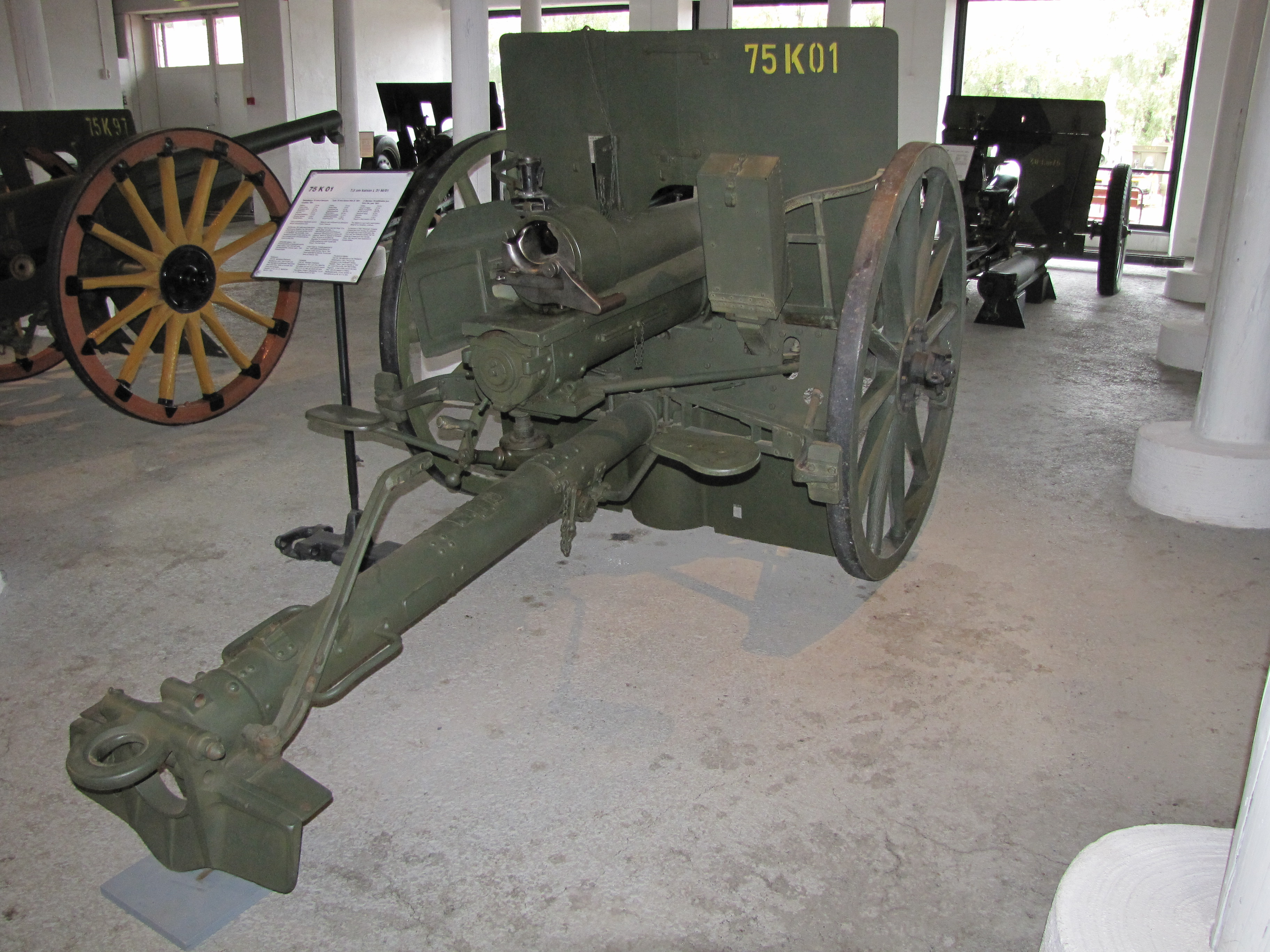 Norwegian 75 mm model 1901 cannon in Hämeenlinna artillery museum. Finnish designation 75 K 01. Gun and carriage number 128/128, manufactured by Rheinische Metallwerke in 1901.